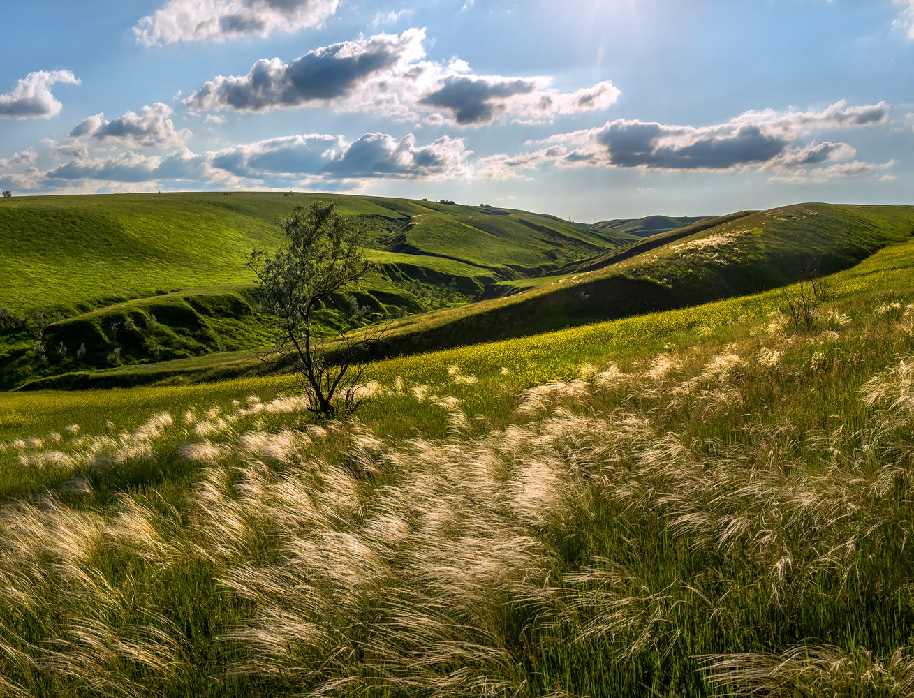 The second log is a natural monument. General view of the reserve. In the foreground blossoms evening. The second log is located in the western part of the Sengileevskaya depression, on the grounds of the Shpakovo district. The length of the girder is 3.9 km, the width is up to 200 m. It is a site of the relict virgin grassy grass-grass steppe with fescue, tonkonom, Lessing feather grass, firewood roofing. One of two places on the Stavropol Upland, where the eremurus grows remarkable, listed in the Red Book of the Russian Federation. The beam is protected as a refugium, where the gene pool of endemic, rare and endangered plants of the Stavropol steppe is preserved.